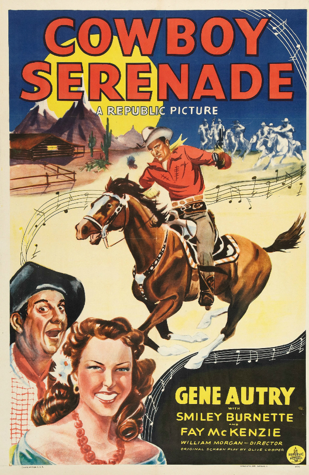 Poster for the 1942 film Cowboy Serenade. There are no copyright marks. At bottom left is Country of origin USA. At bottom right is Morgan Litho Corp. Cleveland, O. 21790.